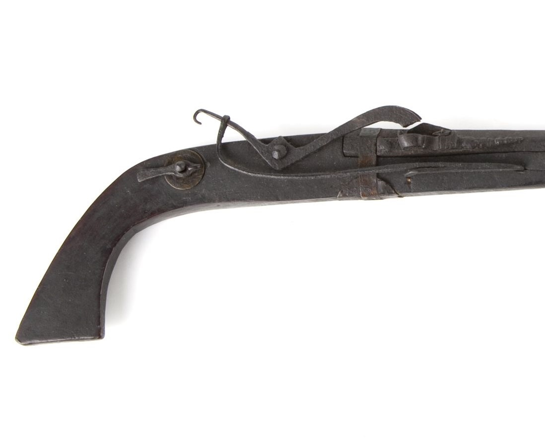 Close up of 19th century Indonesian matchlock firing mechanism.